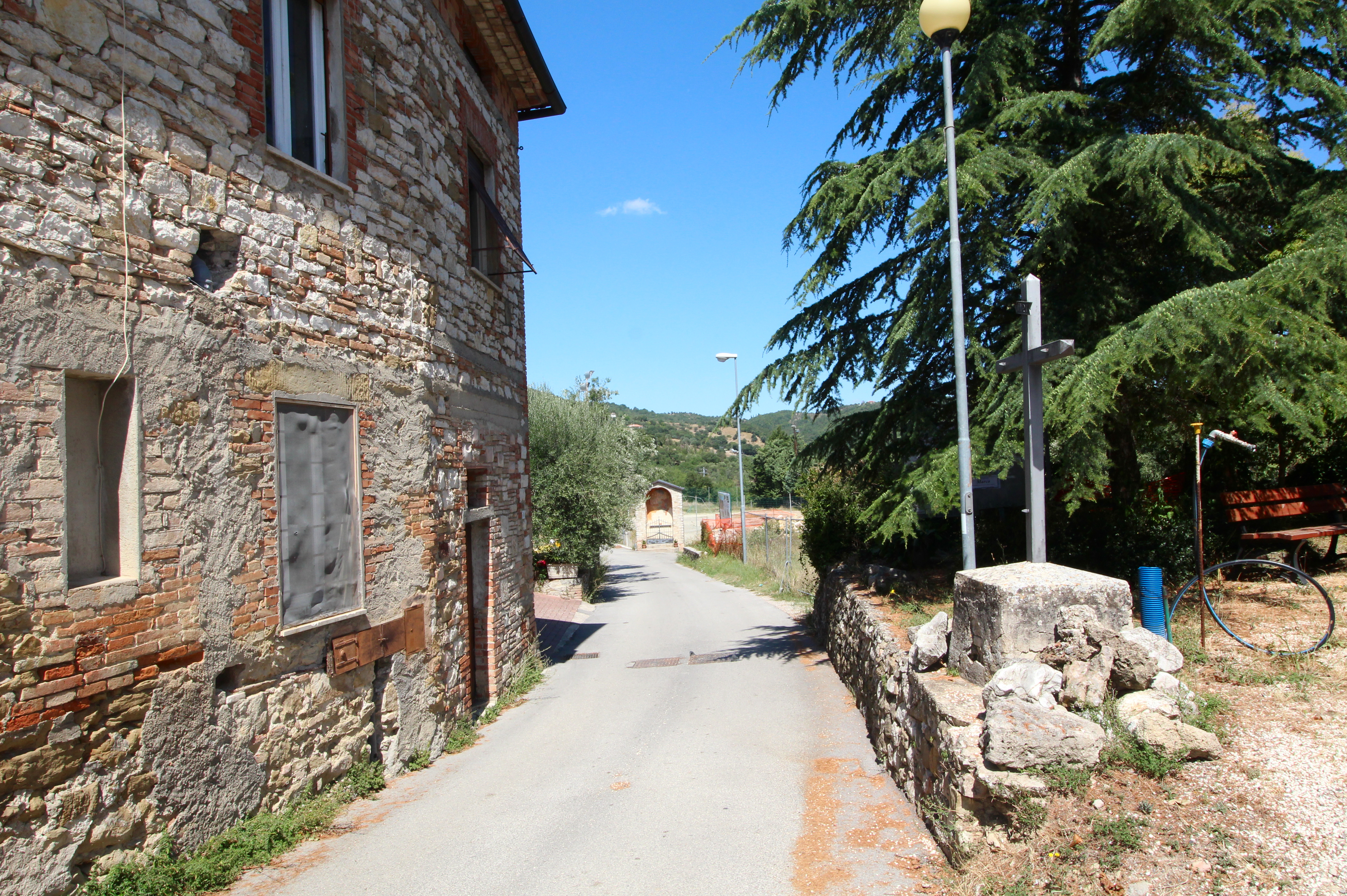 Collesanto, hamlet of Magione, Province of Perugia, Umbria, Italy